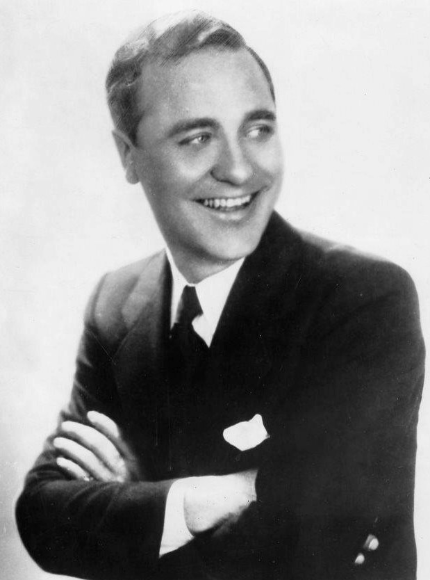 Photo of bandleader, musician and songwriter Wayne King.